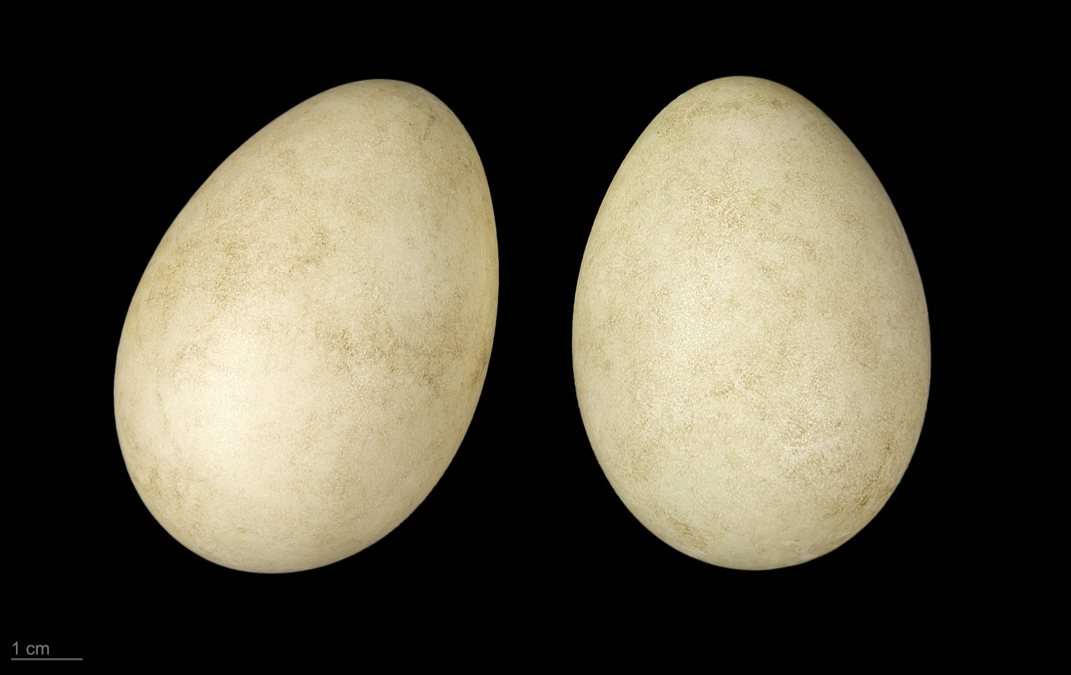 Egg of red-breasted goose Collection of Jacques Perrin de Brichambaut.